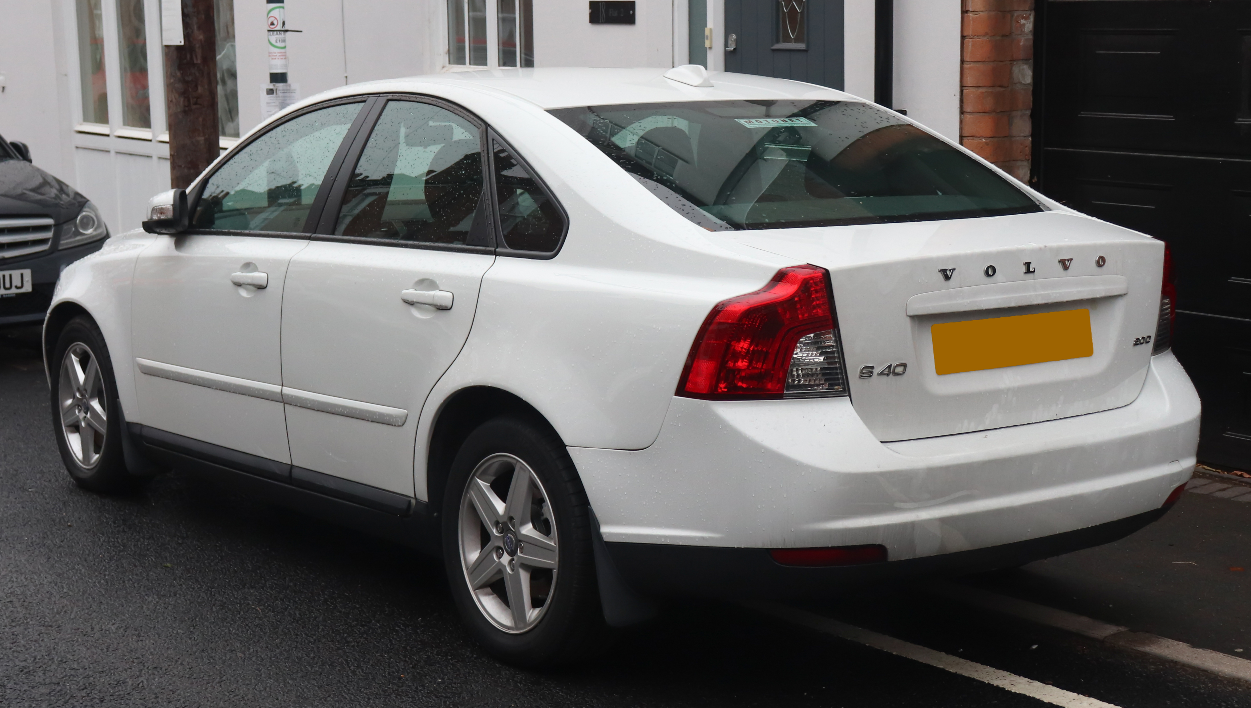 2008 Volvo S40 S Diesel Automatic 2.0 Rear Taken in Leamington Spa